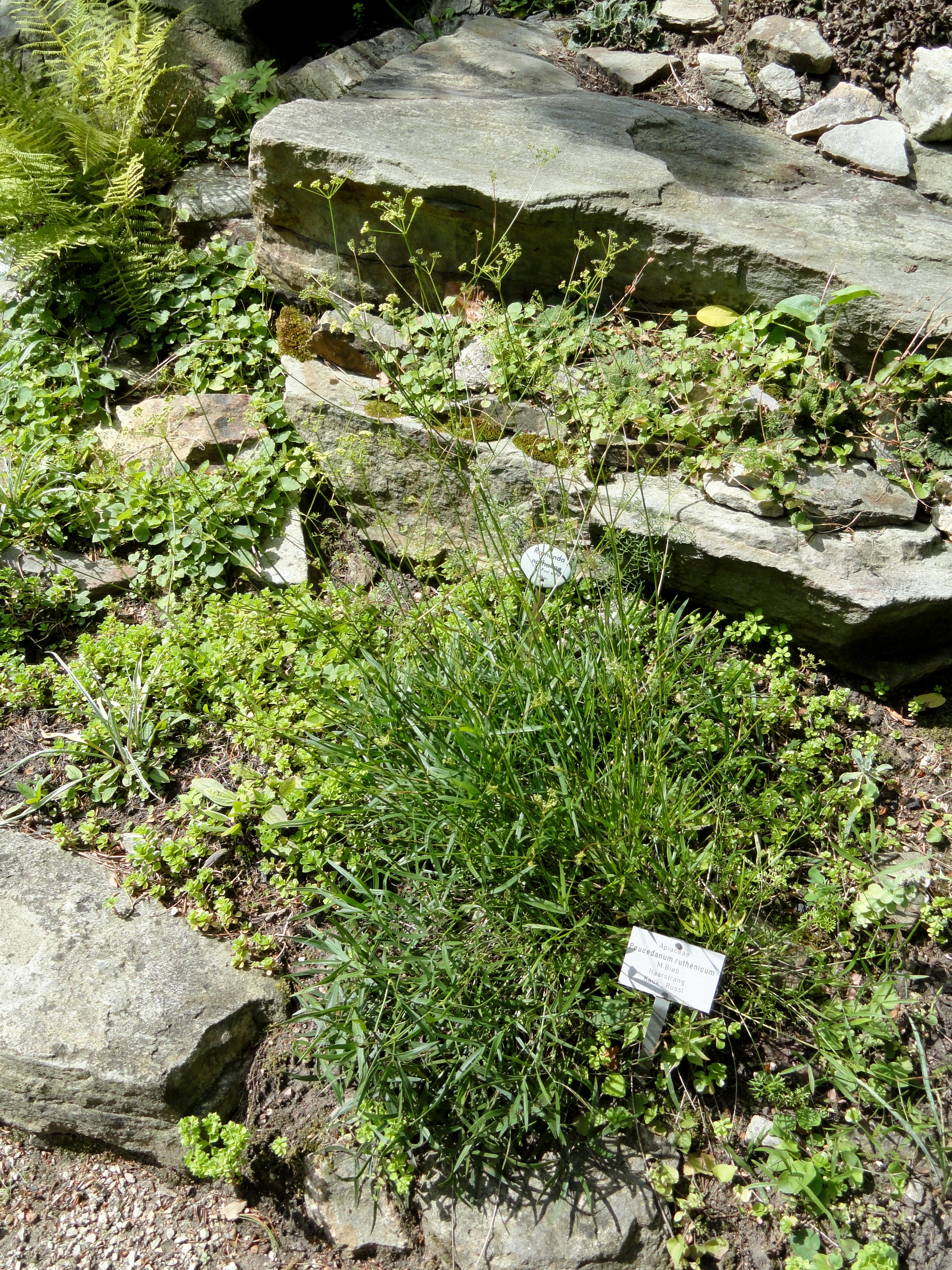 Botanical specimen in the Botanischer Garten, Frankfurt am Main, located at Siesmayerstraße 72, Frankfurt am Main, Germany.